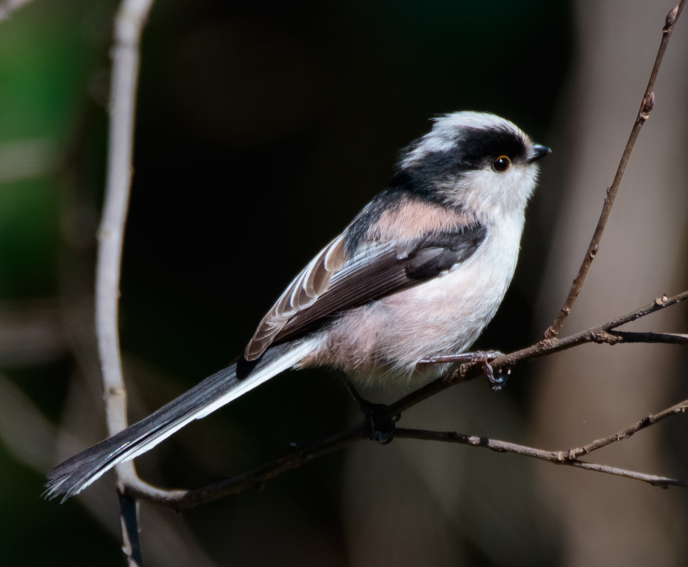 Long-tailed tit at Tennōji Park in Osaka.